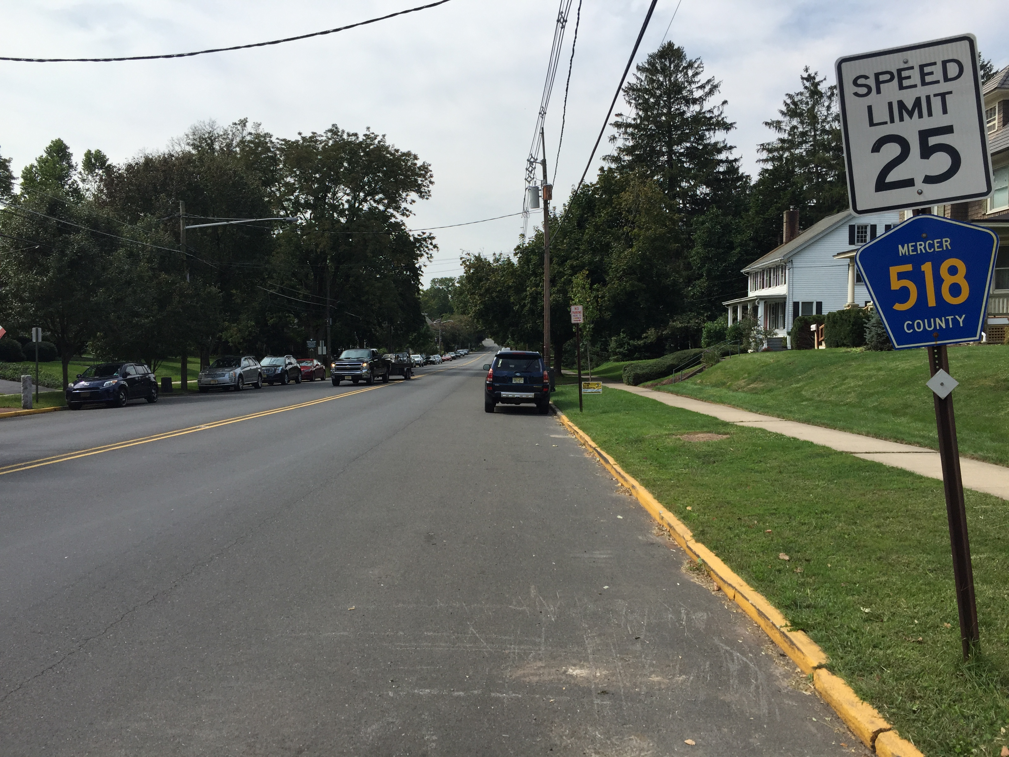 View west along Broad Street (Mercer County Route 518) at Greenwood Avenue in Hopewell Borough, Mercer County, New Jersey